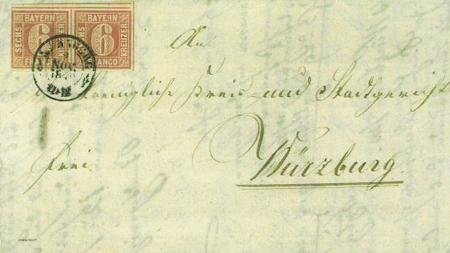 Bavaria first day cover 02.11.1849